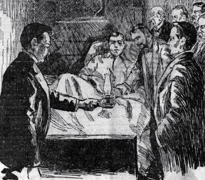 Doctors gather at the bedside of boxer Tom Sharkey after his December 1896 "world championship" fight with Bob Fitzsimmons in Mechanic's Pavilion, San Francisco, a day after Sharkey had to leave the fight because of an injury. All but Sharkey are unidentified.